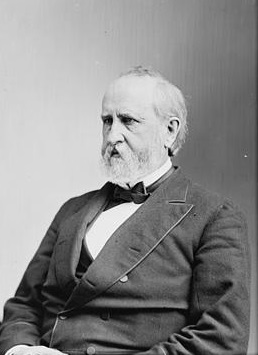 Scott Lord, Congressman from New York